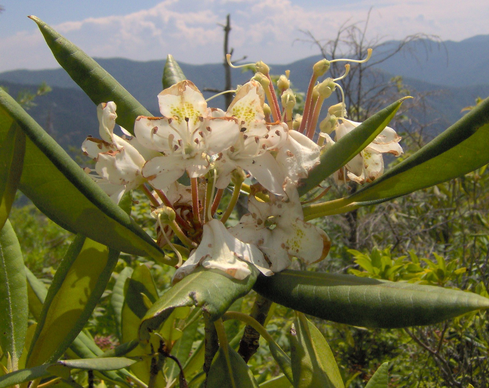 Rhododendron maximum atop Ben Parton Lookout, a heath bald on the south flank of Miry Ridge in the Great Smoky Mountains of Tennessee, in the southeastern United States. The Miry Ridge Trail crosses the heath bald.